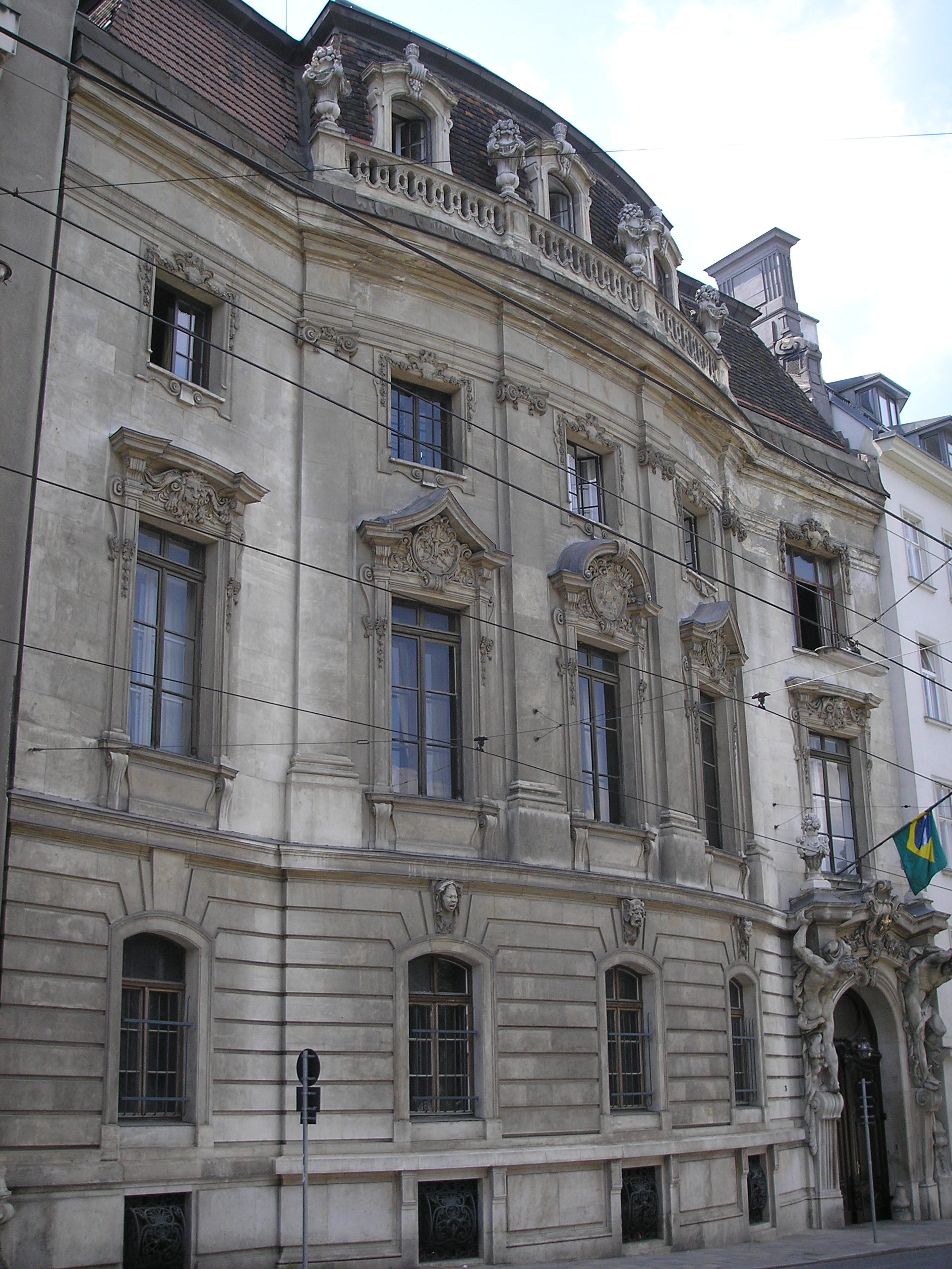 Palais Rothschild at the Prinz-Eugen-Straße #26 in Vienna, also known as Palais Albert Rothschild. Currently houses the Brazilian Embassy. This is the smallest one of the palaces that carried the name Palais Rothschild in Vienna. The palace was constructed for the Austrian Jewish noble family Rothschild in the late 19th century. The building was "aryanised" by the Nazis in 1938, the owners forced to flee.